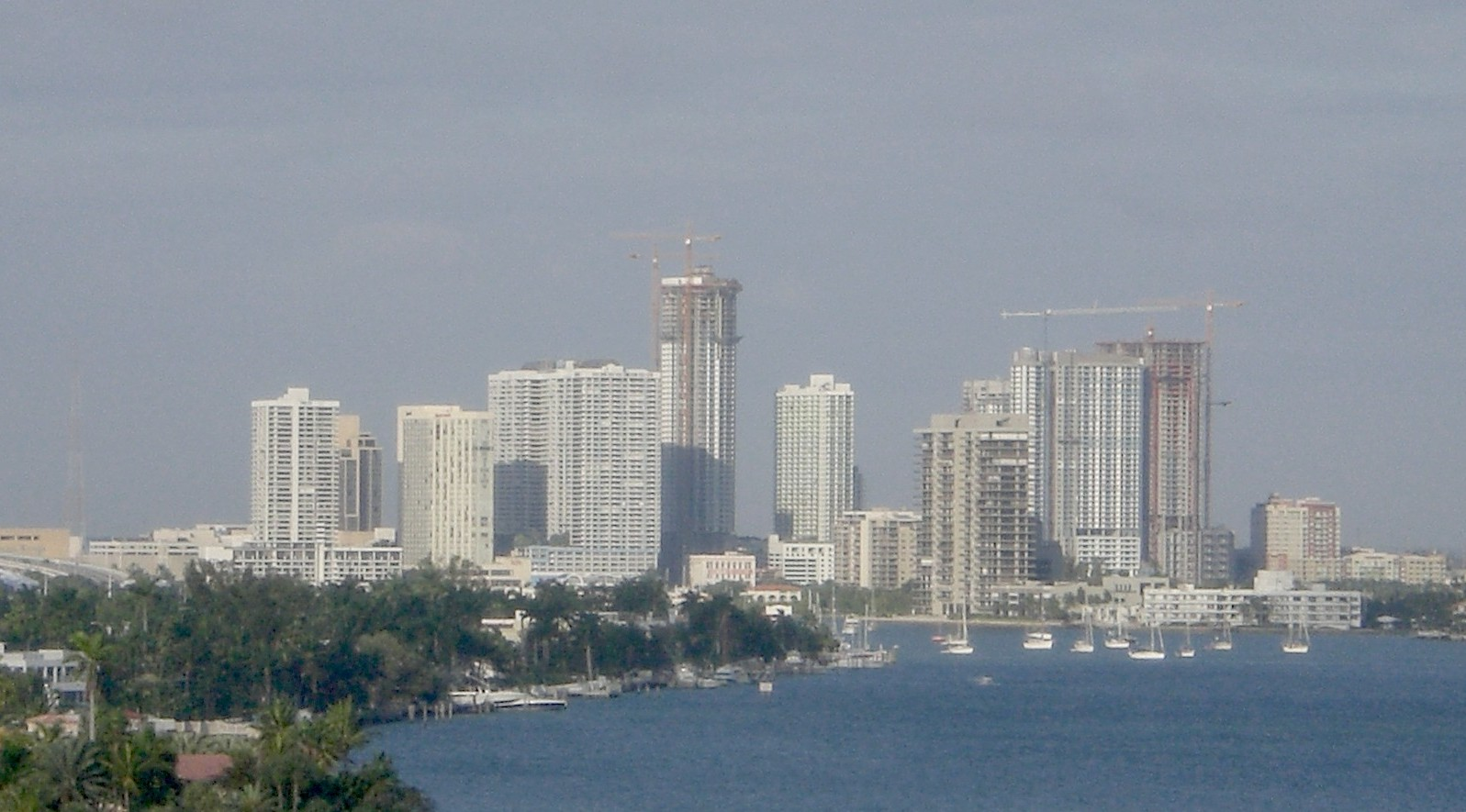 digital photo taken by Marc Averette